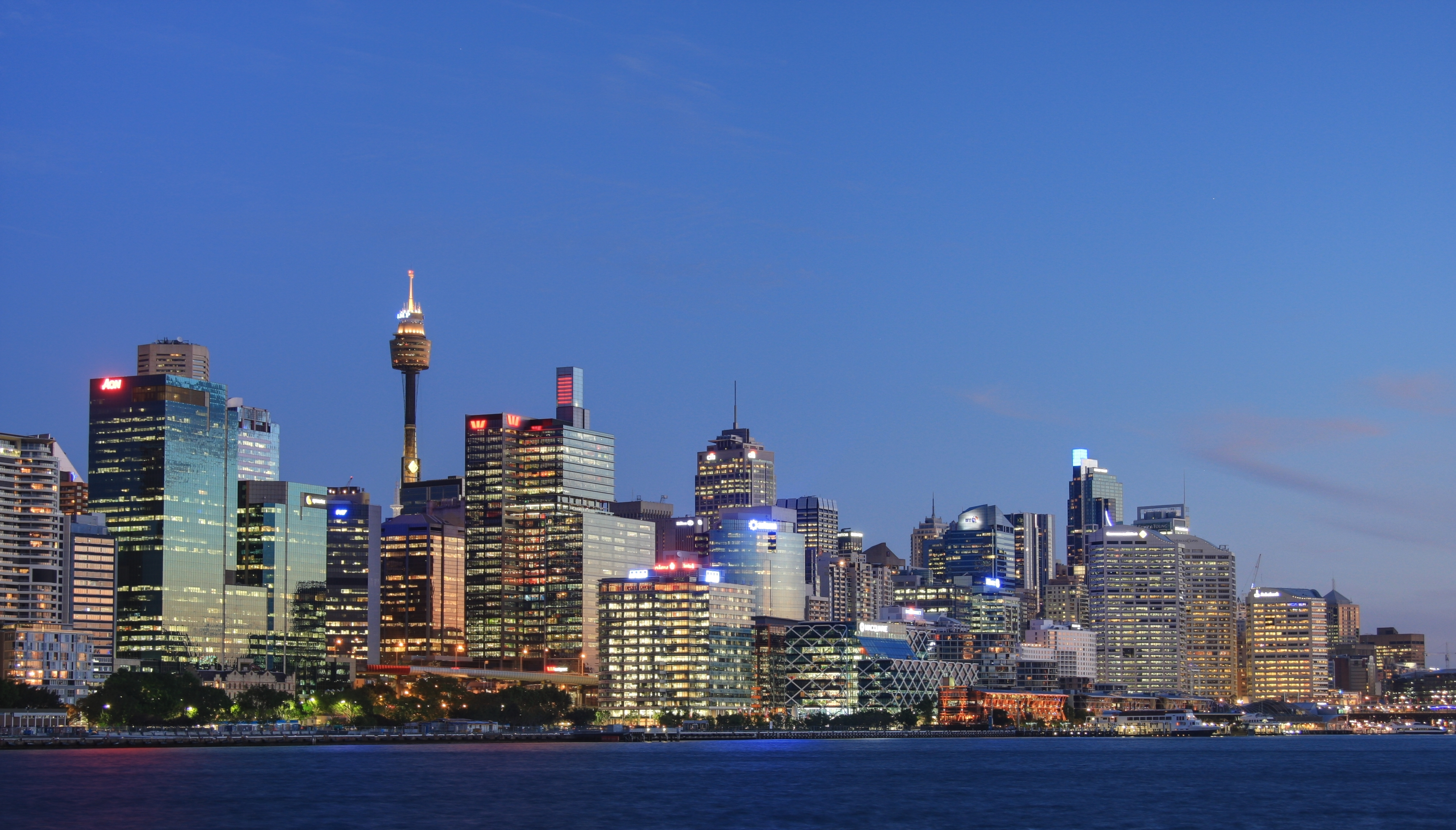 Sydney sunset from the Balmain wharf. Sydney Australia